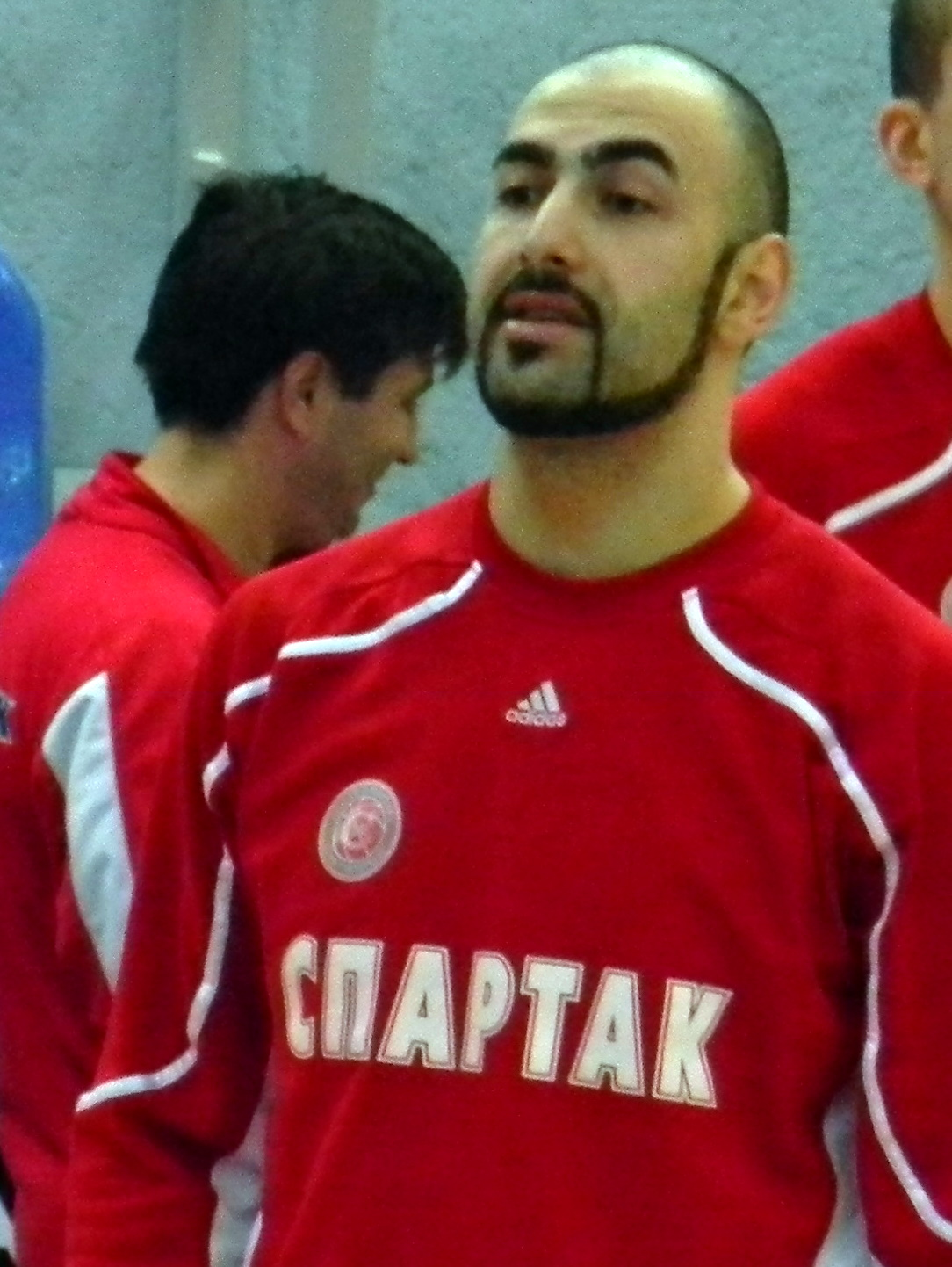 Pero Antić, macedonian basketball player from Spartak Saint-Petersburg in the game against BC Nizhny Novgorod on March 19th, 2011